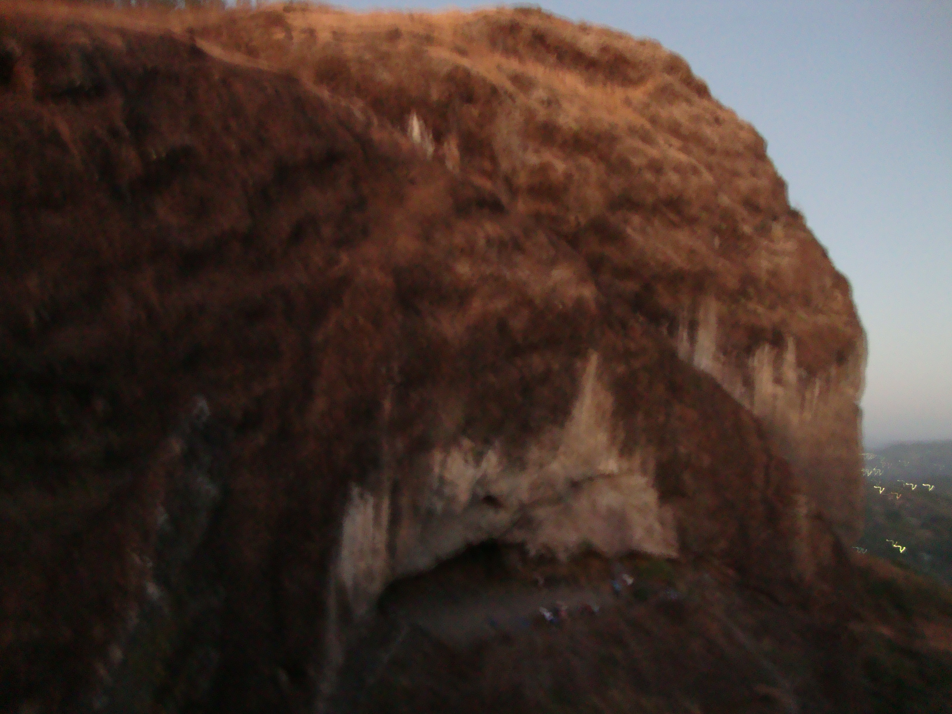 This is a picture of Puerta Del Diablo, in San Salvador, El Salvador Taken when the sun was coming down.